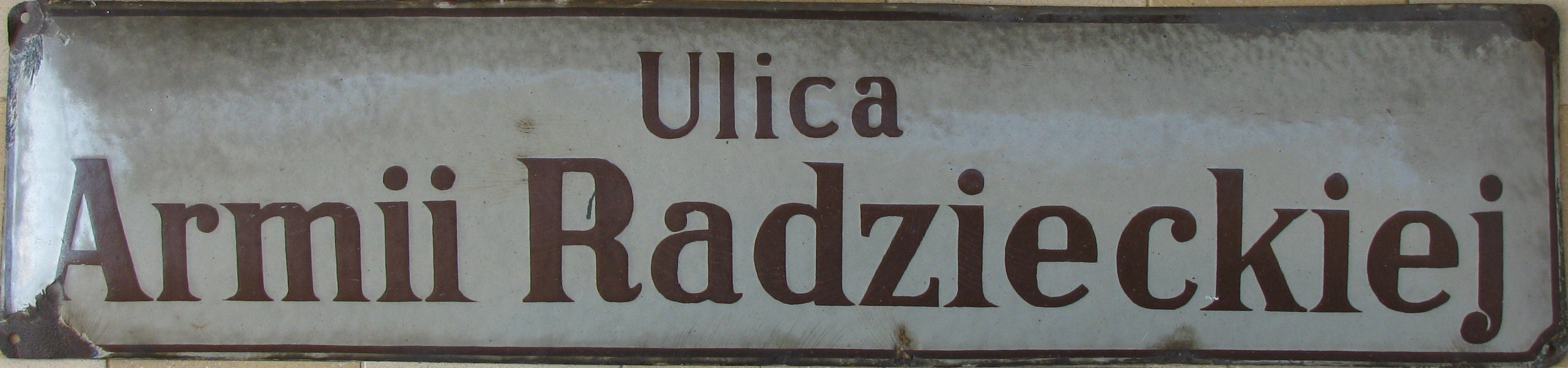 People's Republic of Poland. Soviet Red Army street in Gdańsk-Oliwa.